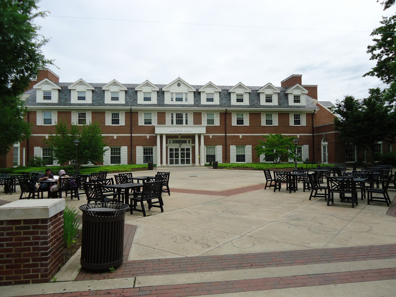 Campus view of The College of New Jersey or TCNG, in Ewing, New Jersey.